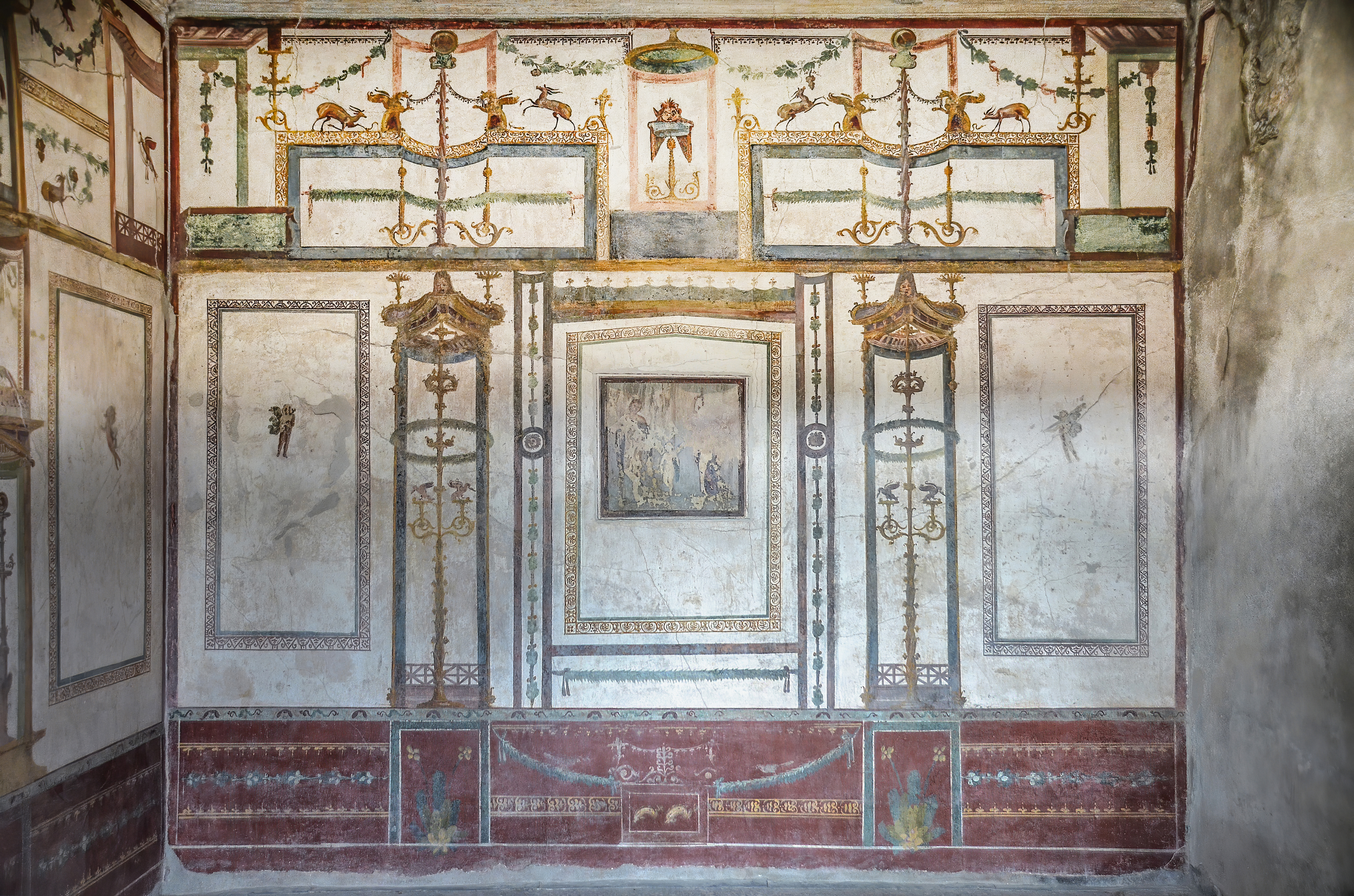 he decoration consists of white panels separated by architectural fancies above a lower decorative red frieze. The central panels of the three main walls contained a large mythological scene. 2nd century BCE - 1st century CE Source